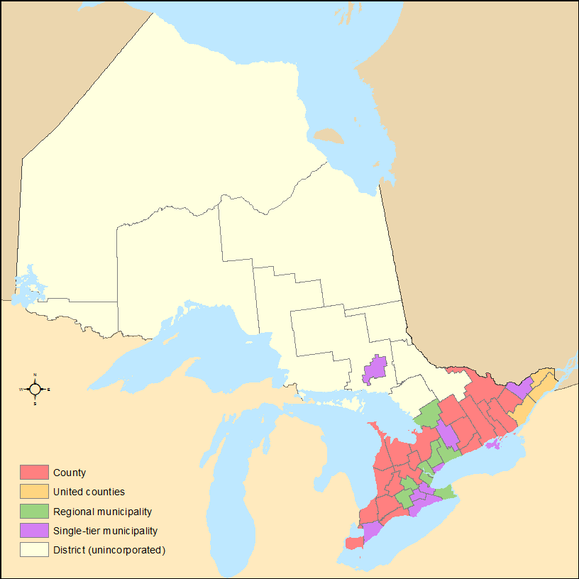 Ontario's census divisions by type from the 2011 federal census